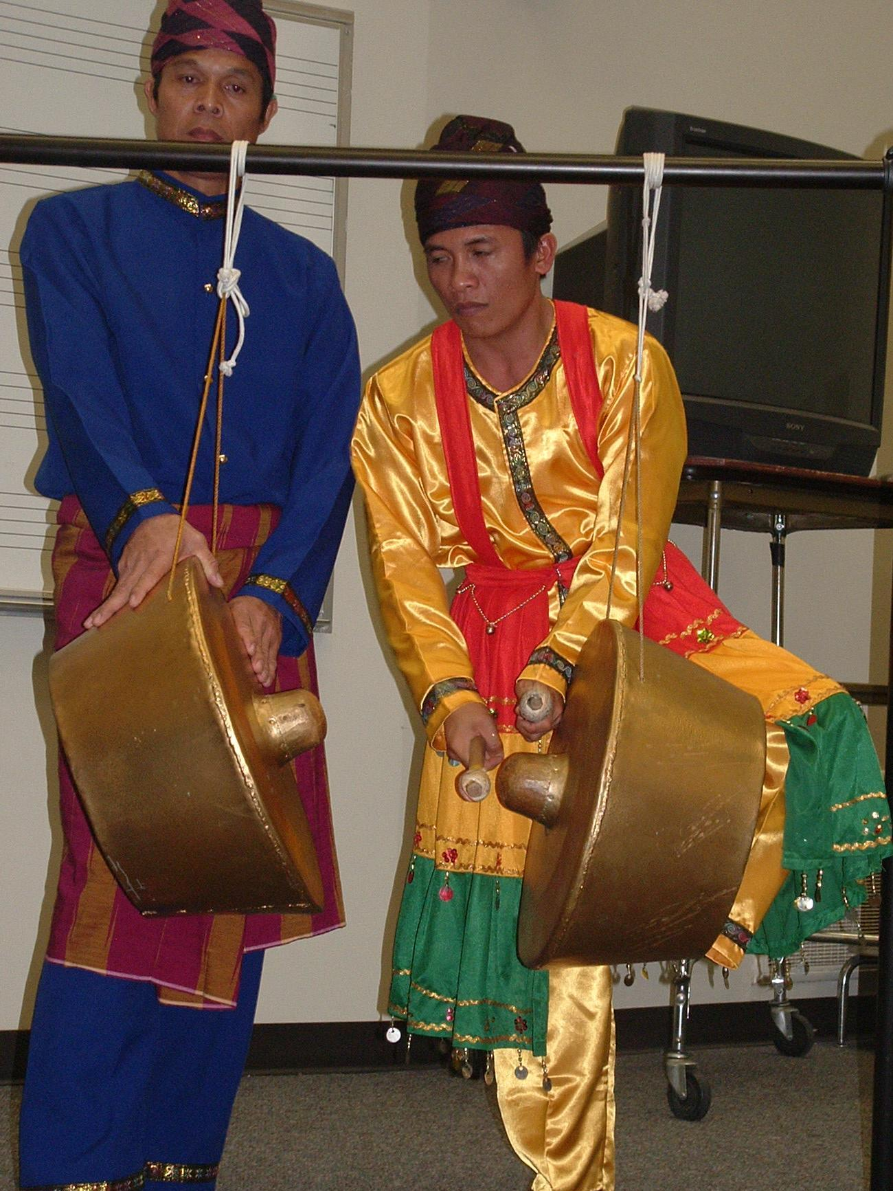 The two Philippine vertically hanged, wide-rimmed gongs known as the agung used as a supportive/accompanying instrument in the kulintang ensemble, here being used during an agung contest.